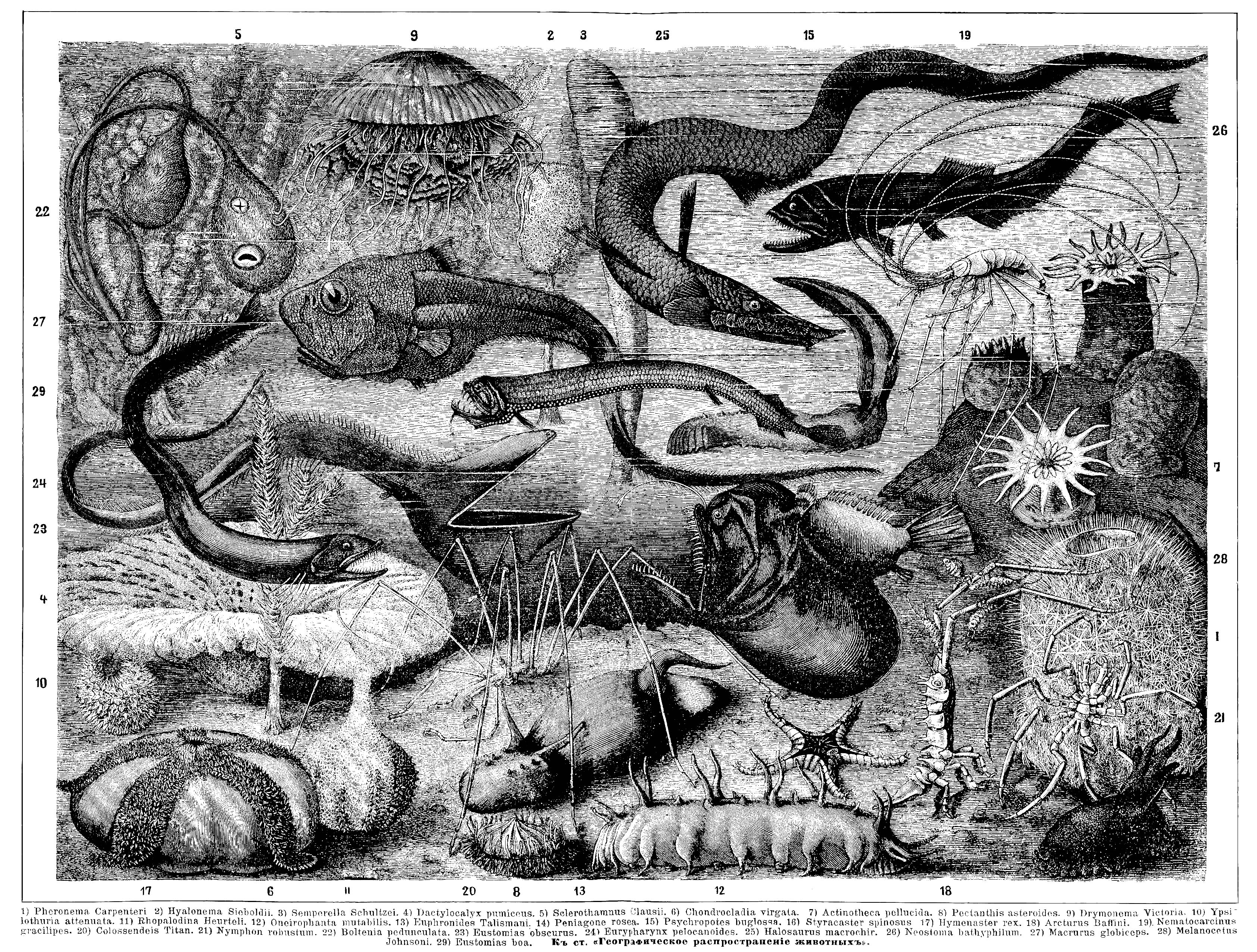 Illustration from Brockhaus and Efron Encyclopedic Dictionary (1890—1907)